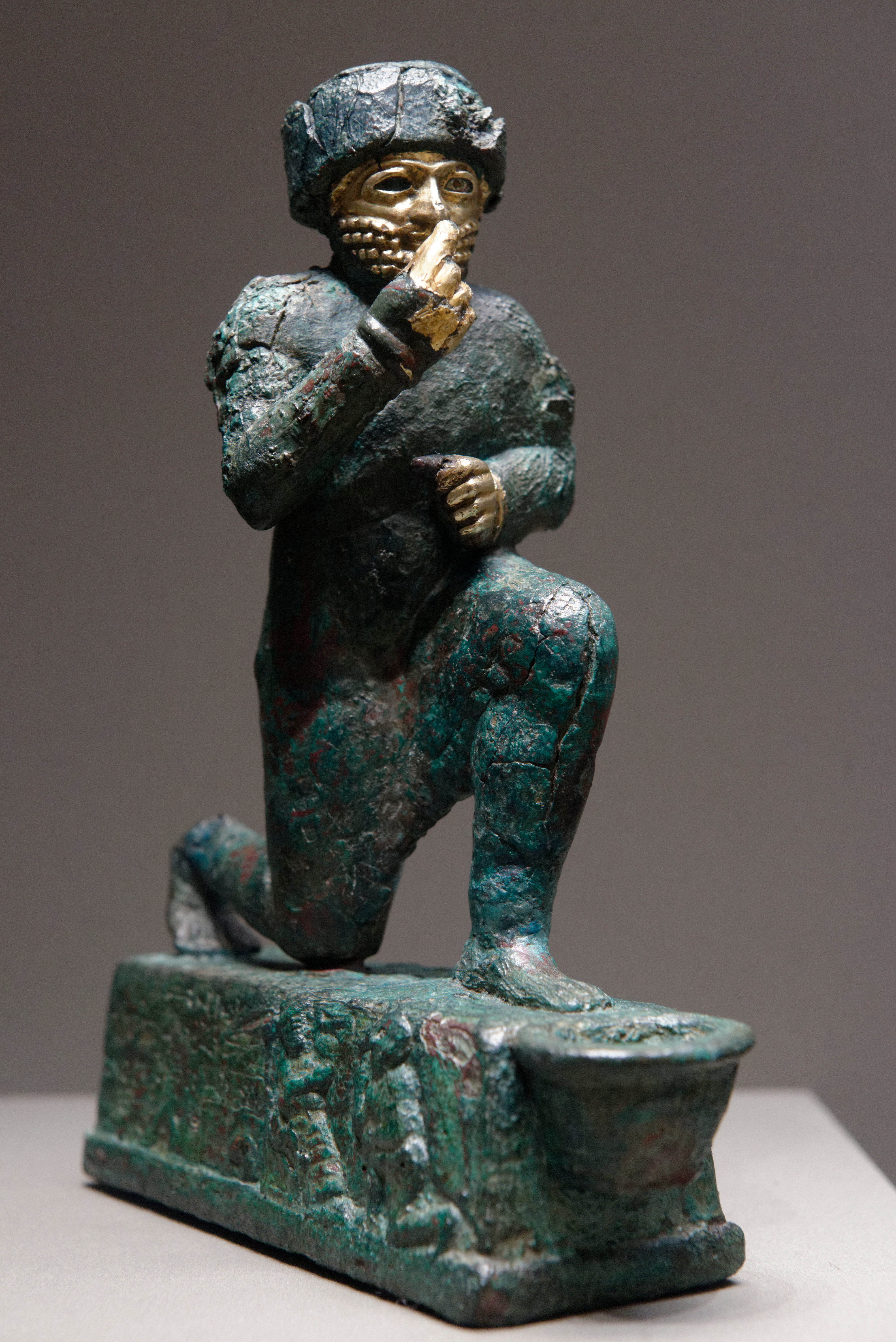 Statuette of a kneeling man dedicated by an inhabitant of Larsa to the god Amurru for the life of Hammurabi.